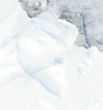 Spaatz Island and DeAtley Island (much smaller, to the right)